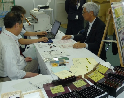 Toshio Ogawa, Senior Vice-Minister of Justice, inspected the National Exhibition of the Prison Industry at the Science Museum, Tokyo in Chiyoda Ward, Tōkyō Metropolis on June 3, 2011. (For terms of use, see 法務省：法務省ウェブサイトのコンテンツの利用について.)